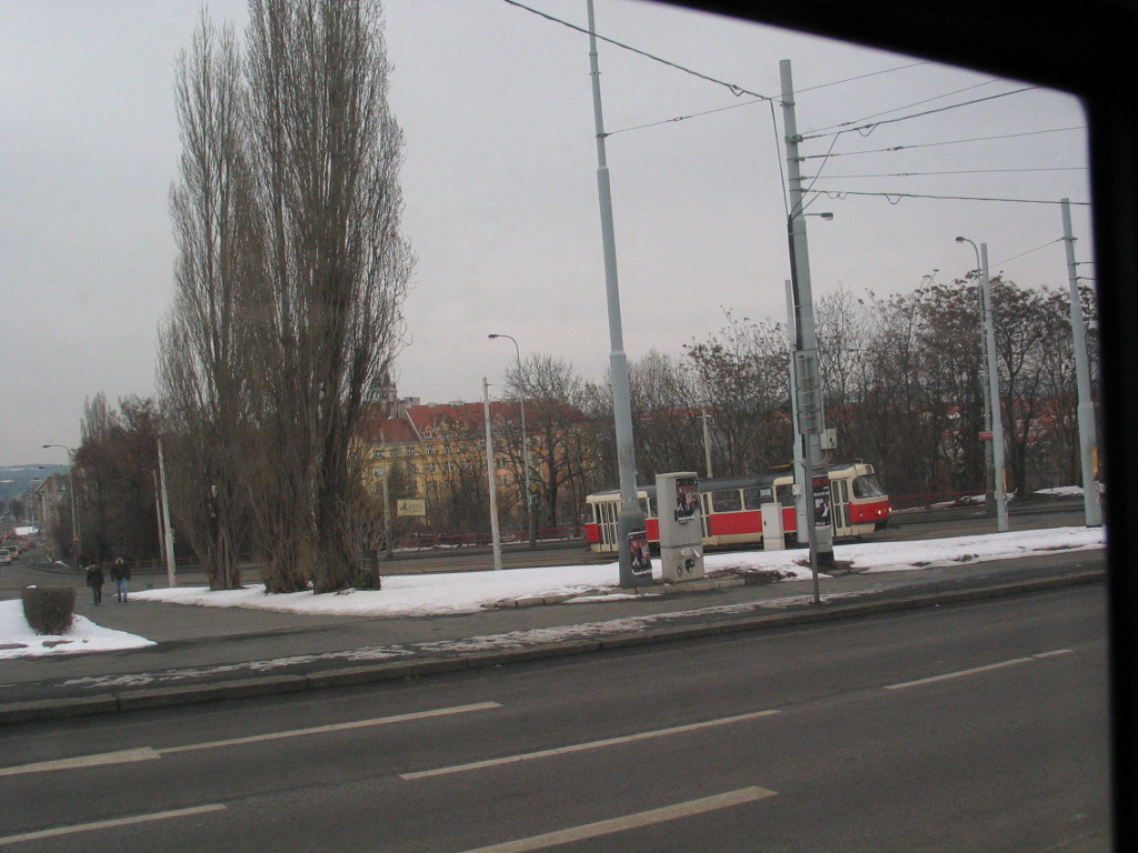 The tram is coming from Dejvice section of the Prage to toward the center